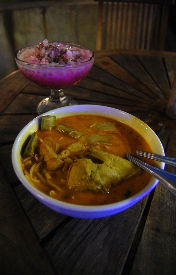 Mi kari from Malaysia, Sold in Indonesia